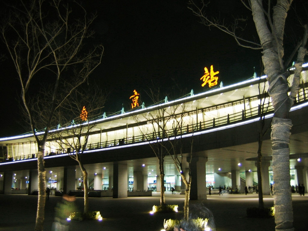 南京站夜景 Nanjing railway station night view